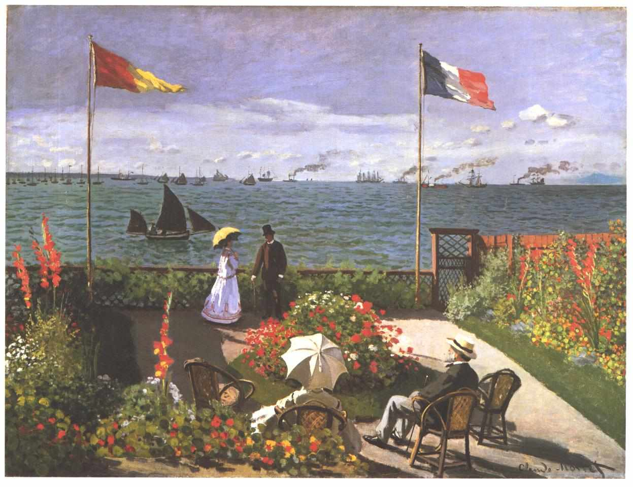 Terrace on the Sea shore of Sainte Adresse